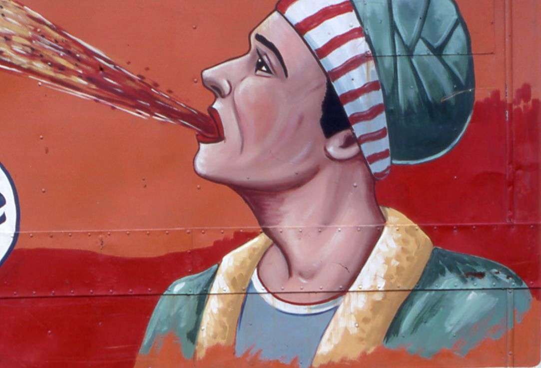 Old sideshow ad for fire breathing man, taken during period of decline of sideshows, Florida, 1966